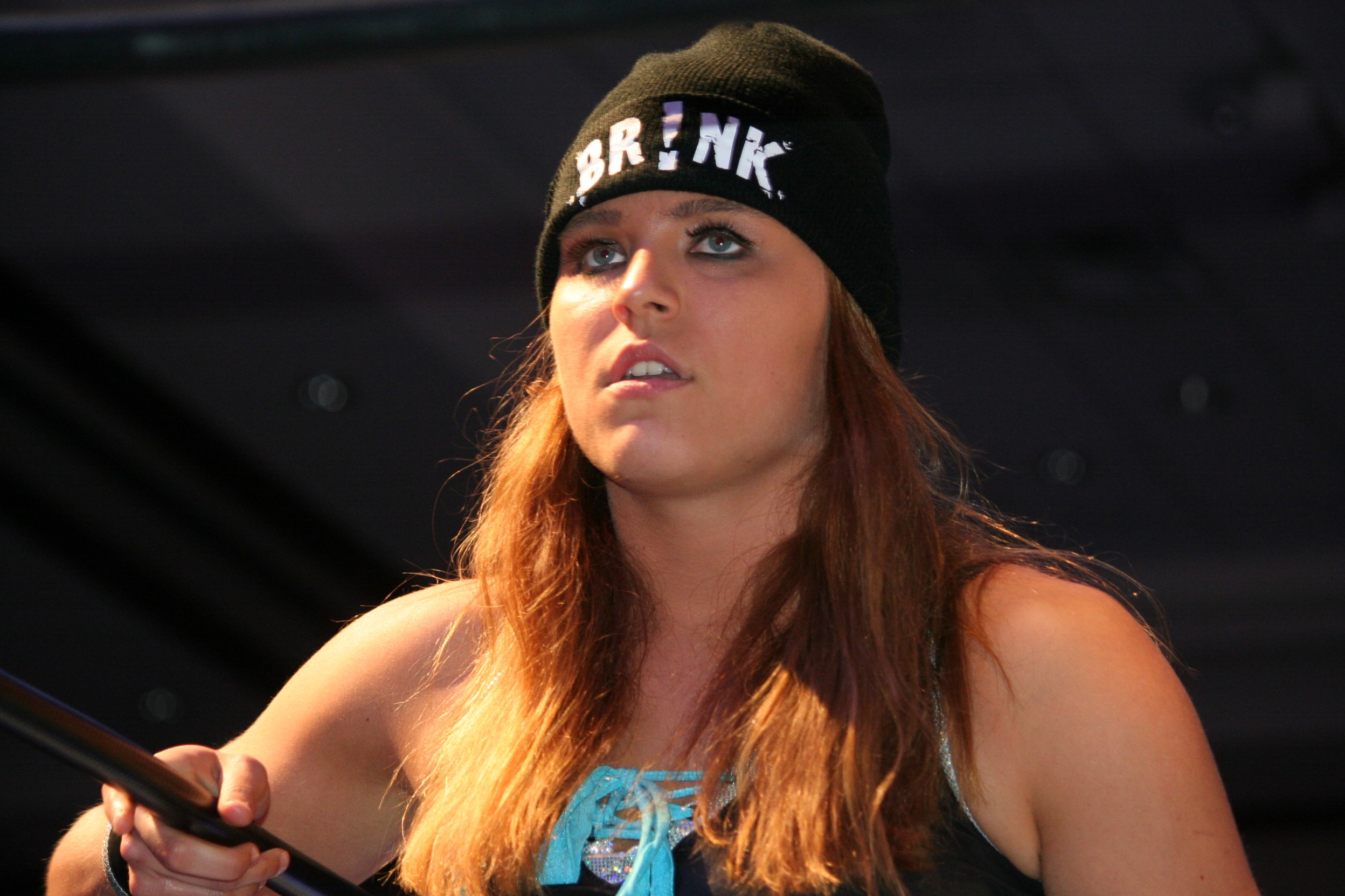 Kennadi Brink at Wrestlecon Womens Supershow in Orlando, Florida, on March 31, 2017.